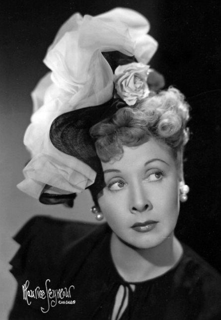 Photo of Vivian Vance used for publicity for the play Springtime for Henry.